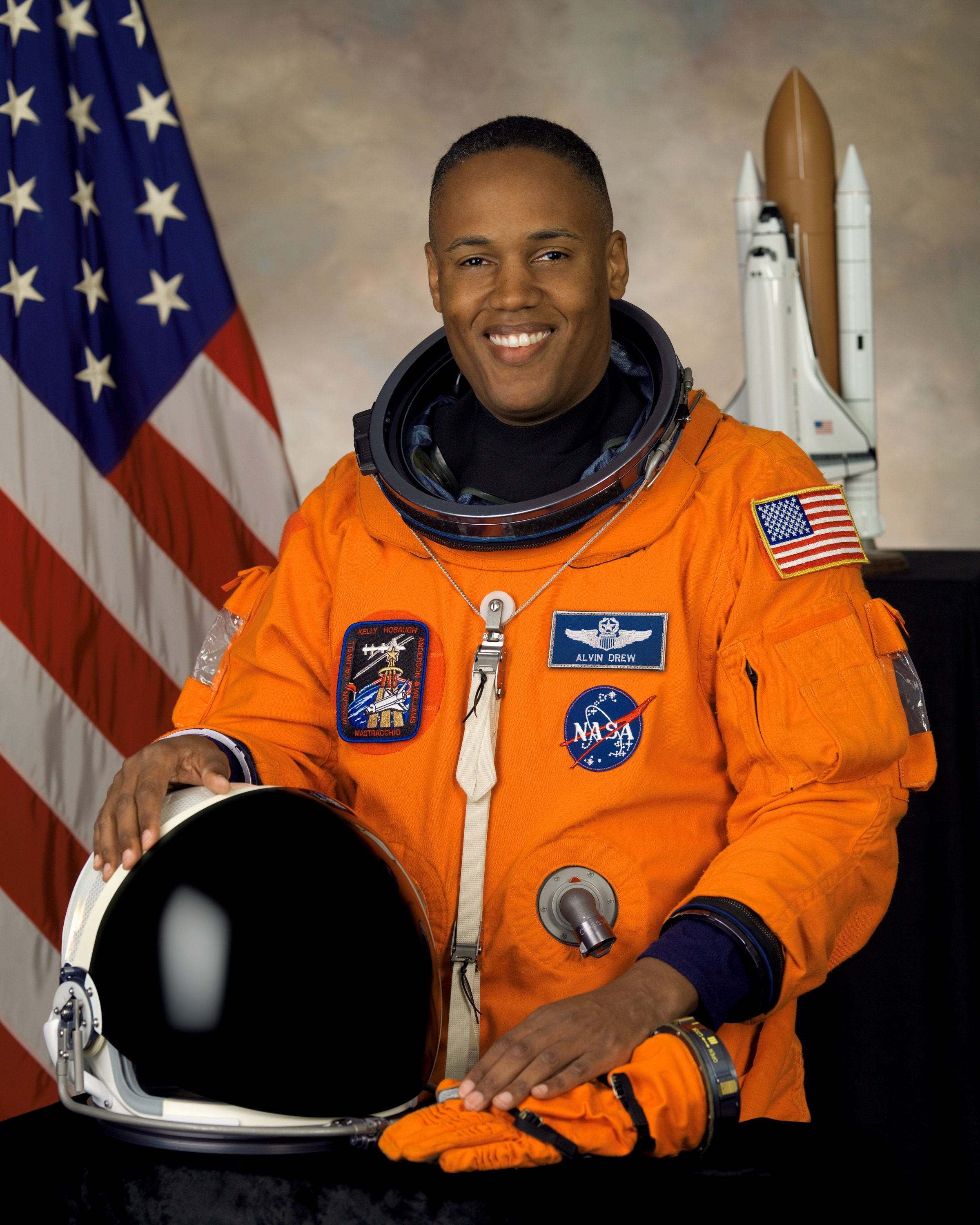 Official portrait image of NASA astronaut Benjamin Alvin Drew Jr.